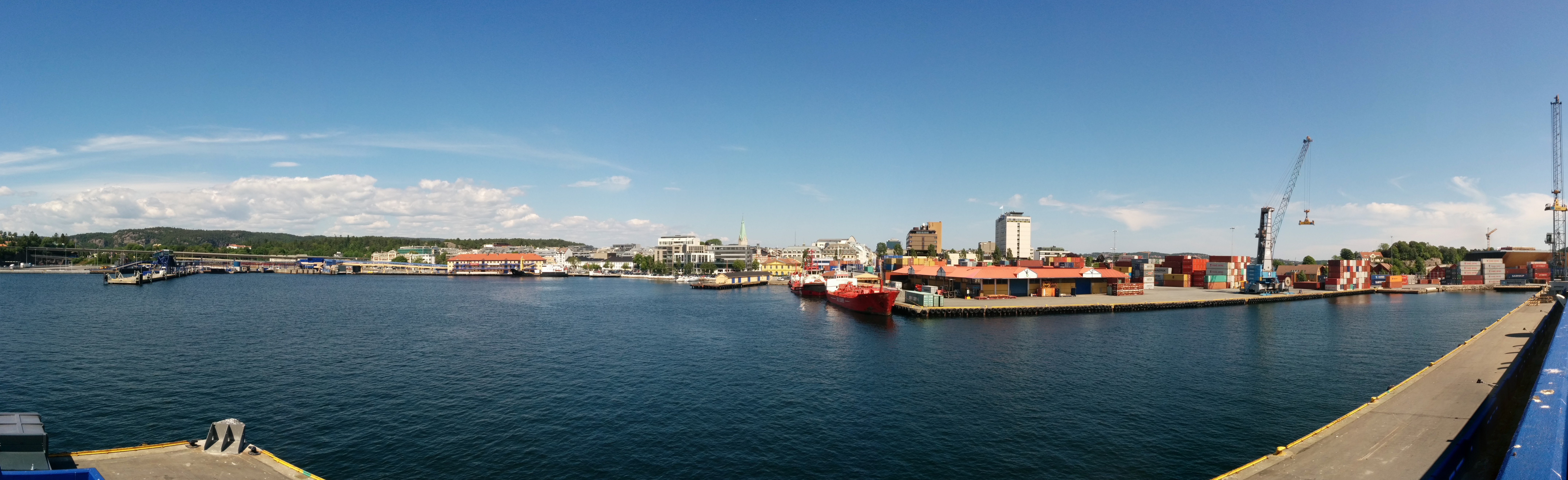 Kristiansand harbourNorsk bokmål: Kristiansand havn